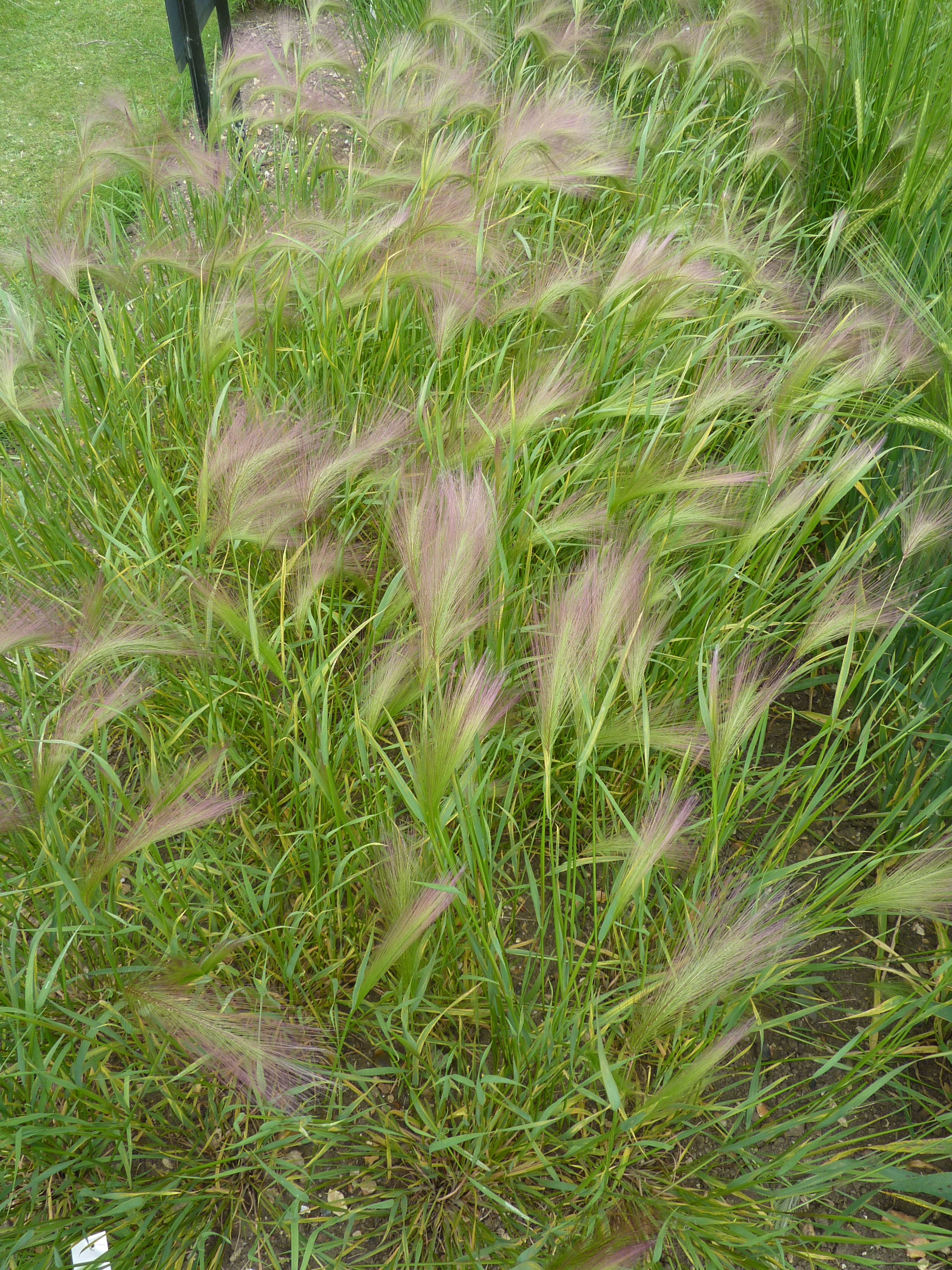 Taken in the Cambridge University Botanic Garden